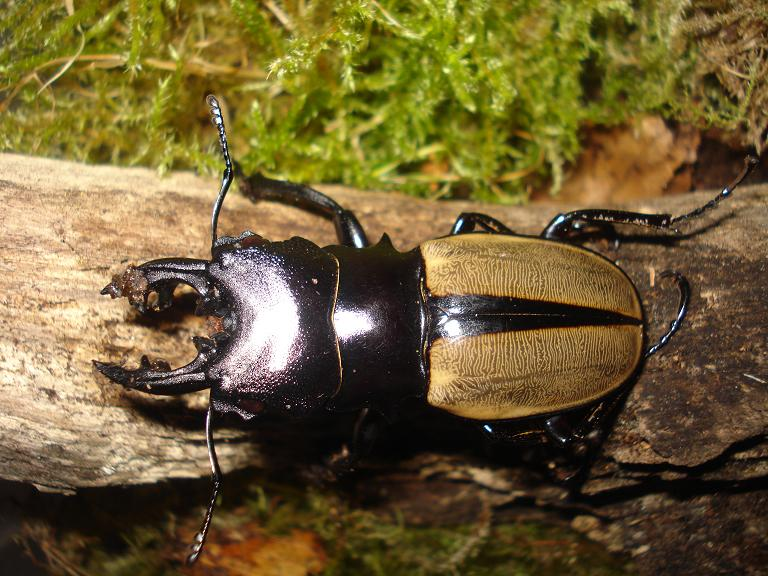 A 60mm long male of Odontolabis ludekingi monticola